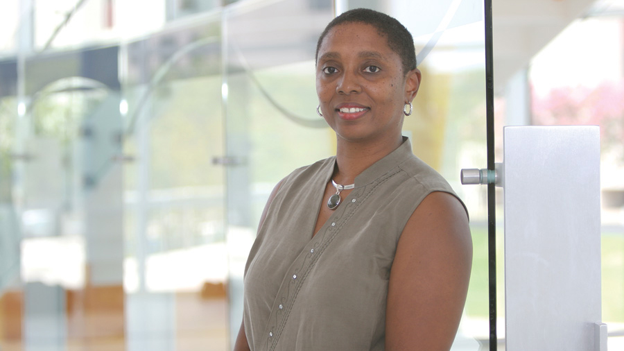 Valerie Taylor, Mathematics and Computer Science (MCS) division at the U.S. Department of Energy’s (DOE) Argonne National Laboratory.